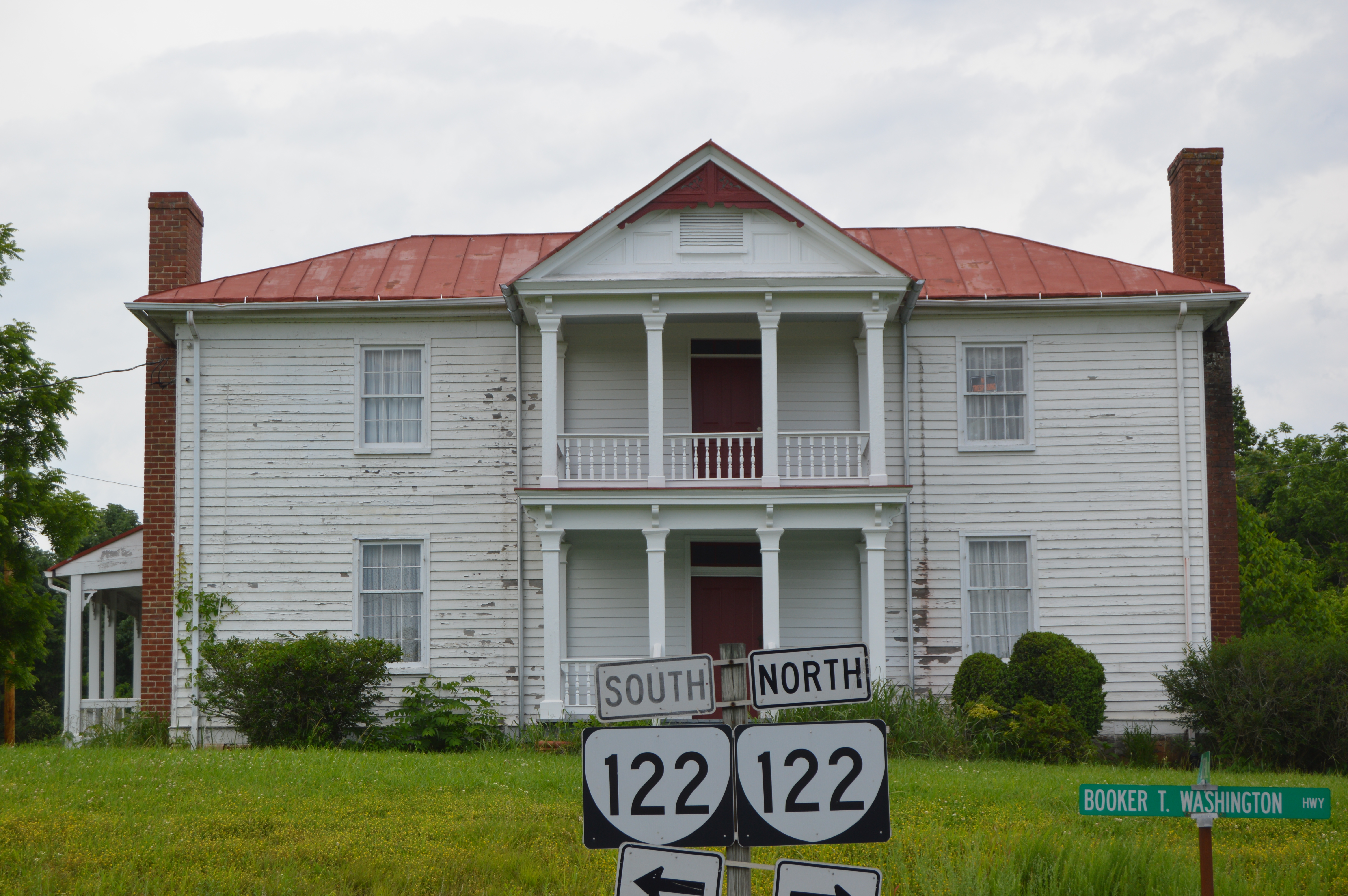 Front of the Hook-Powell-Moorman Farmhouse, located on State Route 122 southwest of Moneta in Franklin County, Virginia, United States. Built in 1855, it is listed on the National Register of Historic Places.